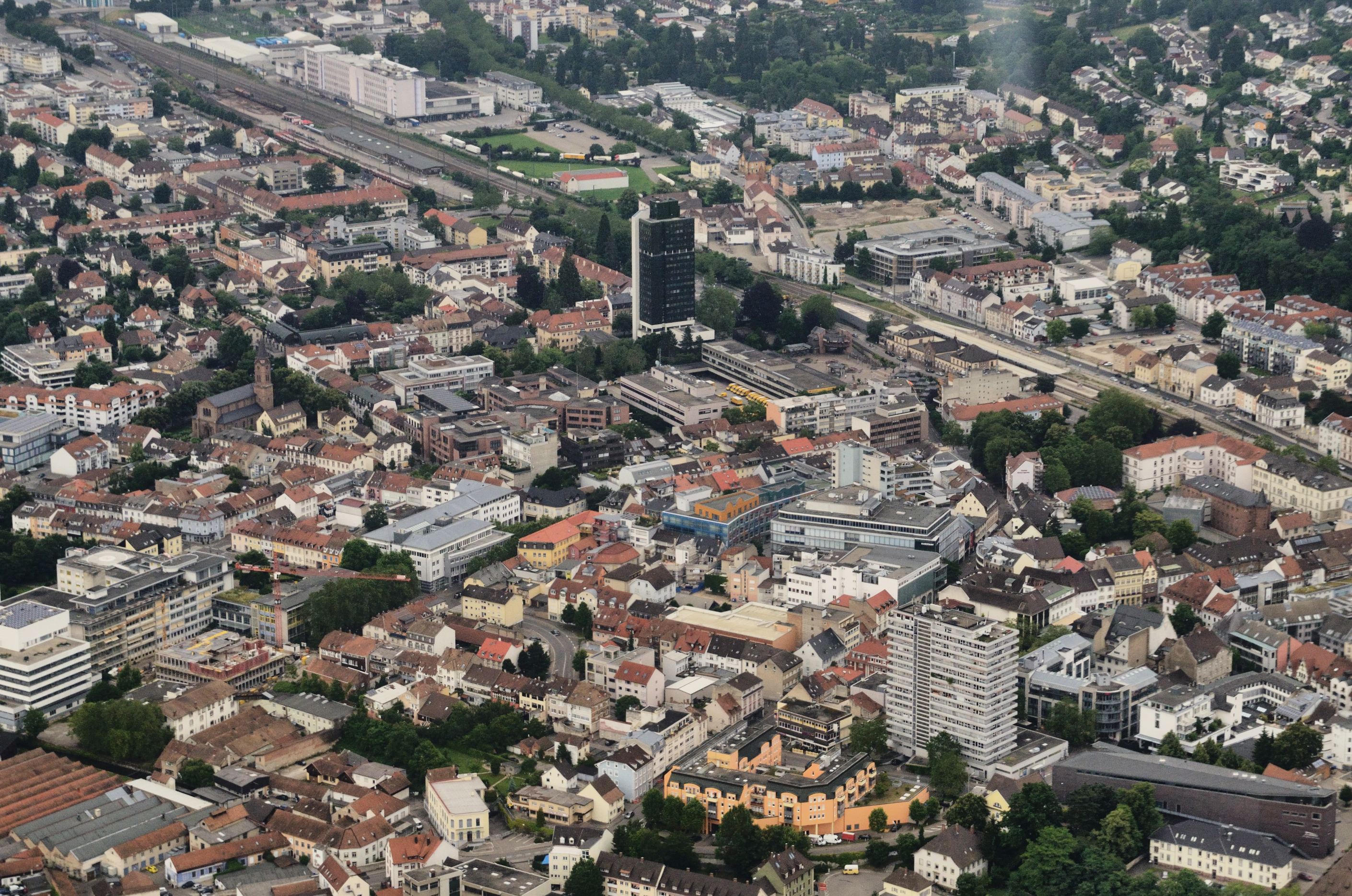 Aerial view at Lörrach